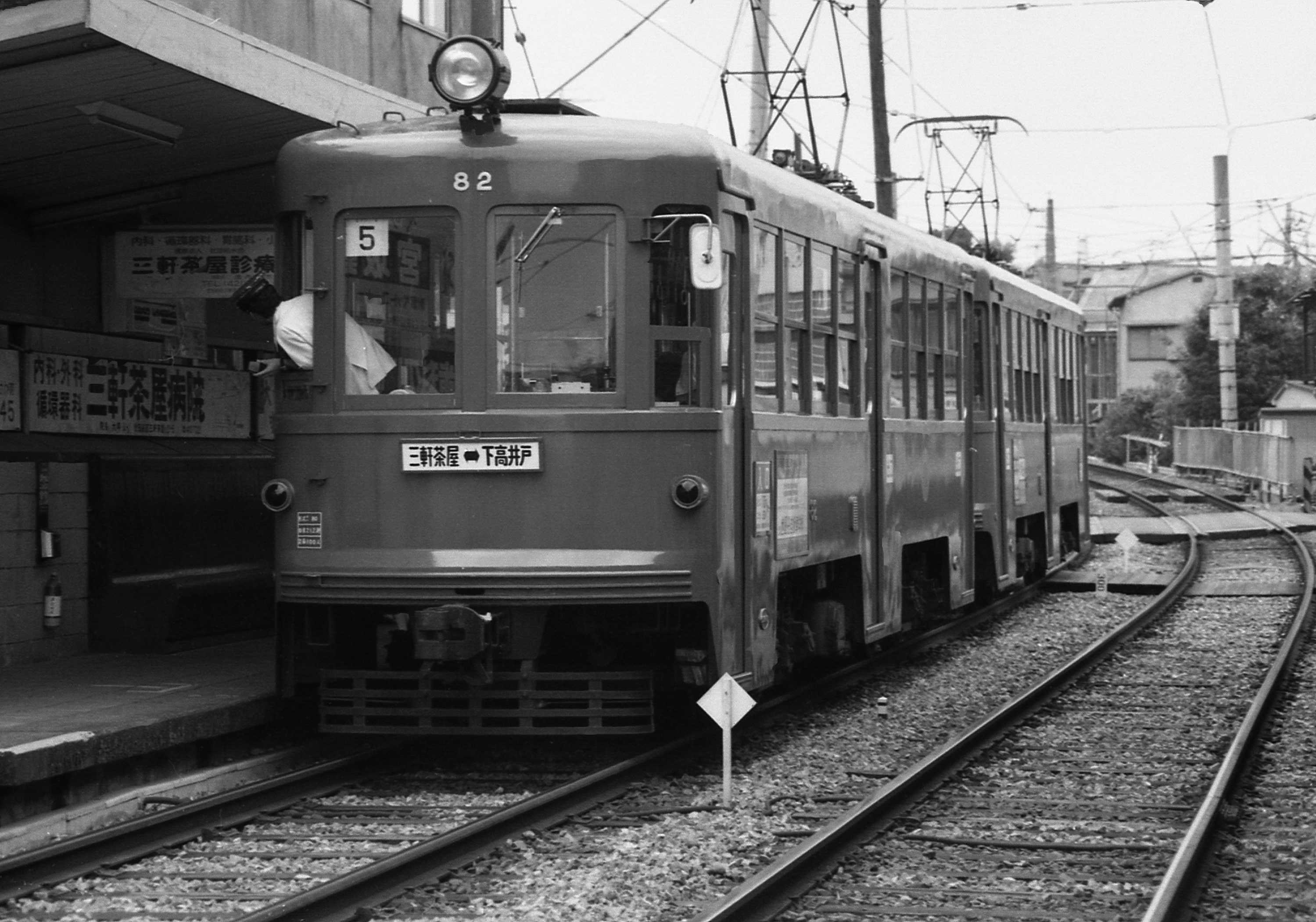 Tokyu type 80 train running Setagaya line